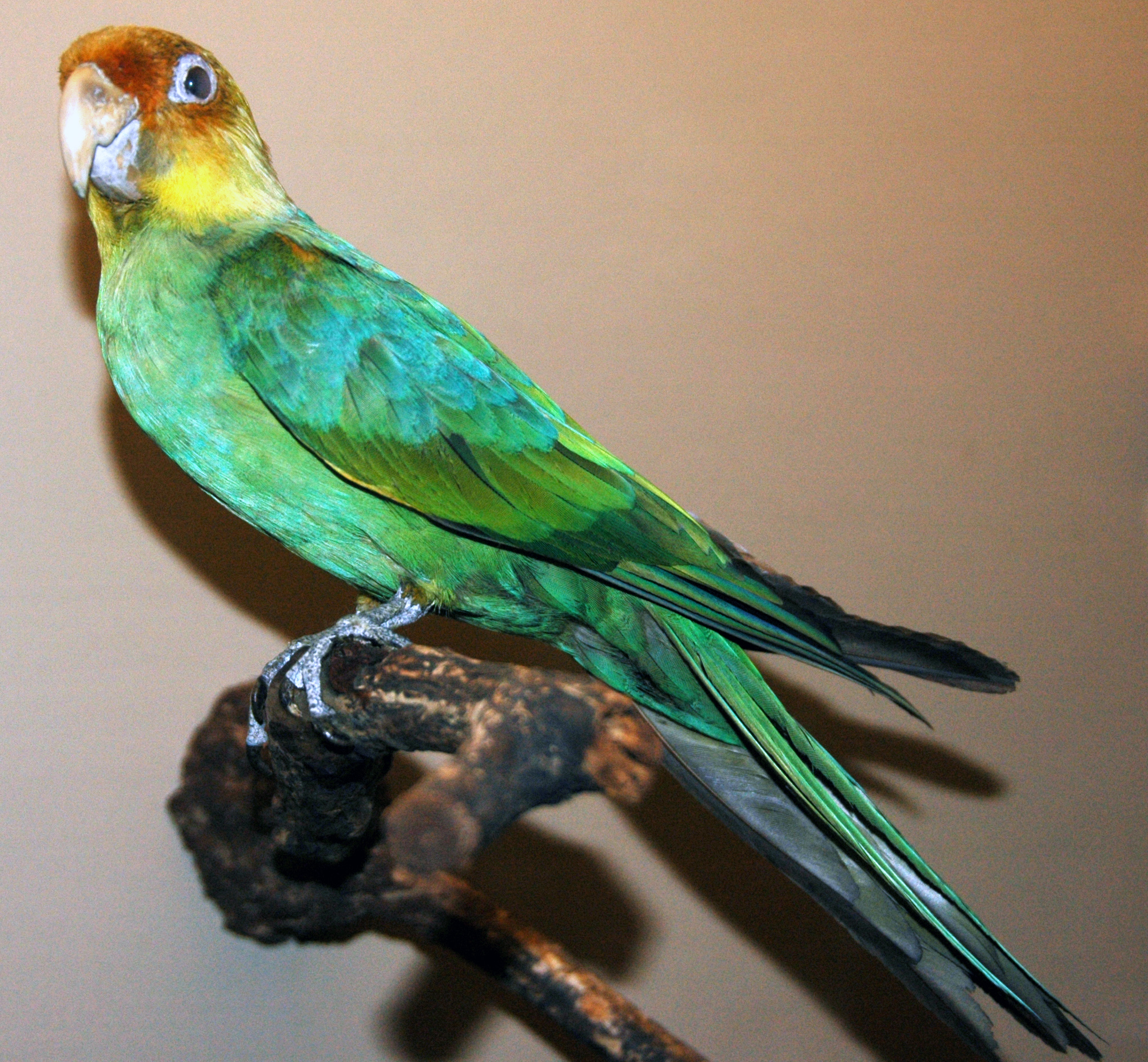 Conuropsis carolinensis (Linnaeus, 1758) - the extinct Carolina parakeet (mount, public display, Field Museum of Natural History, Chicago, Illinois, USA). This was a colorful species that lived throughout much of eastern America (unusual for a member of the parrot family - most are Southern Hemisphere dwellers). It was principally a seed eater and took advantage of those in orchards & farmers’ fields. Because of this, it was perceived as a pest, and was driven to extinction by hunters for pest control, for feathers to be used in the fashion industry, and for "fun". The last verified Carolina parakeet died in February 1918 in the Cincinnati Zoo. Classification: Animalia, Chordata, Vertebrata, Aves, Psittaciformes, Psittacidae